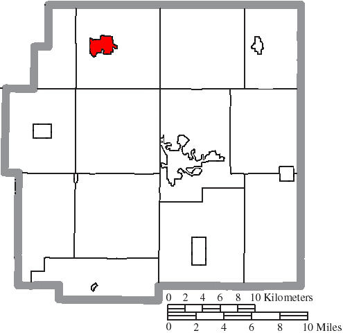 Map of the municipal and township boundaries of Wyandot County, Ohio, United States, as of the 2000 census, with the location of the village of Carey highlighted. Township borders are shown only in unincorporated areas in order to differentiate incorporated and unincorporated areas more clearly.